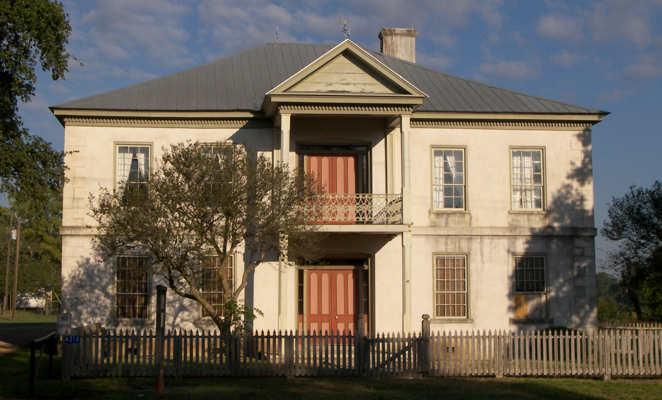 The William Neese Sr. Homestead in Warrenton, Texas, United States. The house was listed on the National Register of Historic Places on February 18, 1975.